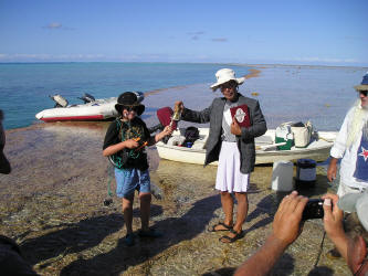 These images can be found at